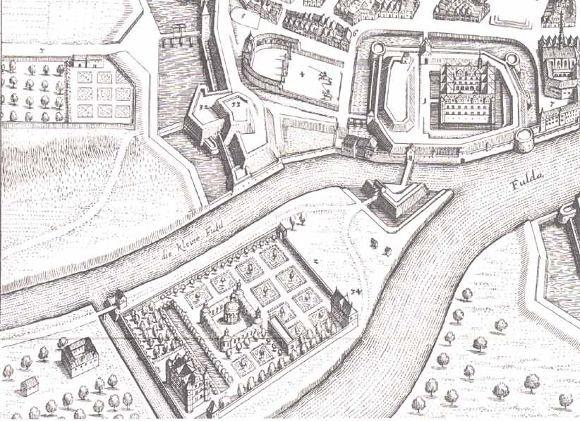 historc map of Kassel, Germany by Matthäus Merian, 1648 23:12, 24. Okt 2005 Carroy 822 x 597 (386186 Byte) (Ausschnitt aus Stadtplan von Kassel von Matthäus Merian , 1648 Partie der Fuldaaue unter dem Stadtschloss, heute Karlsaue . PD-Art|PD-old-100 )